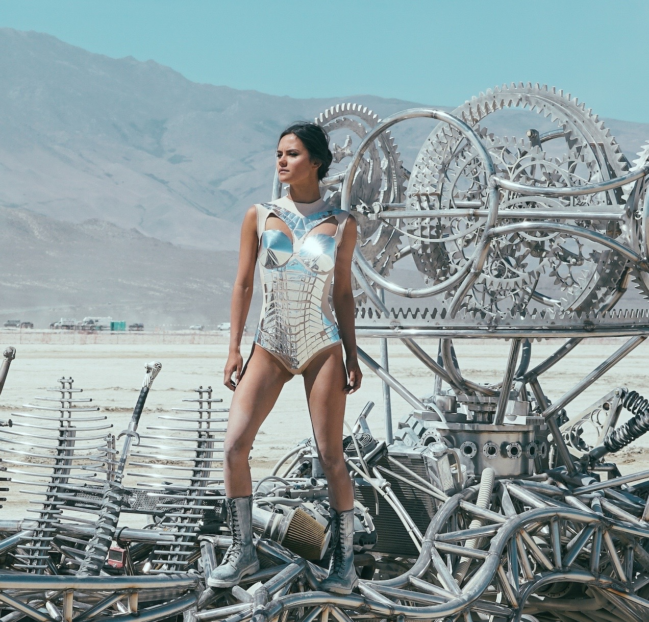 Katya posing at Burning Man